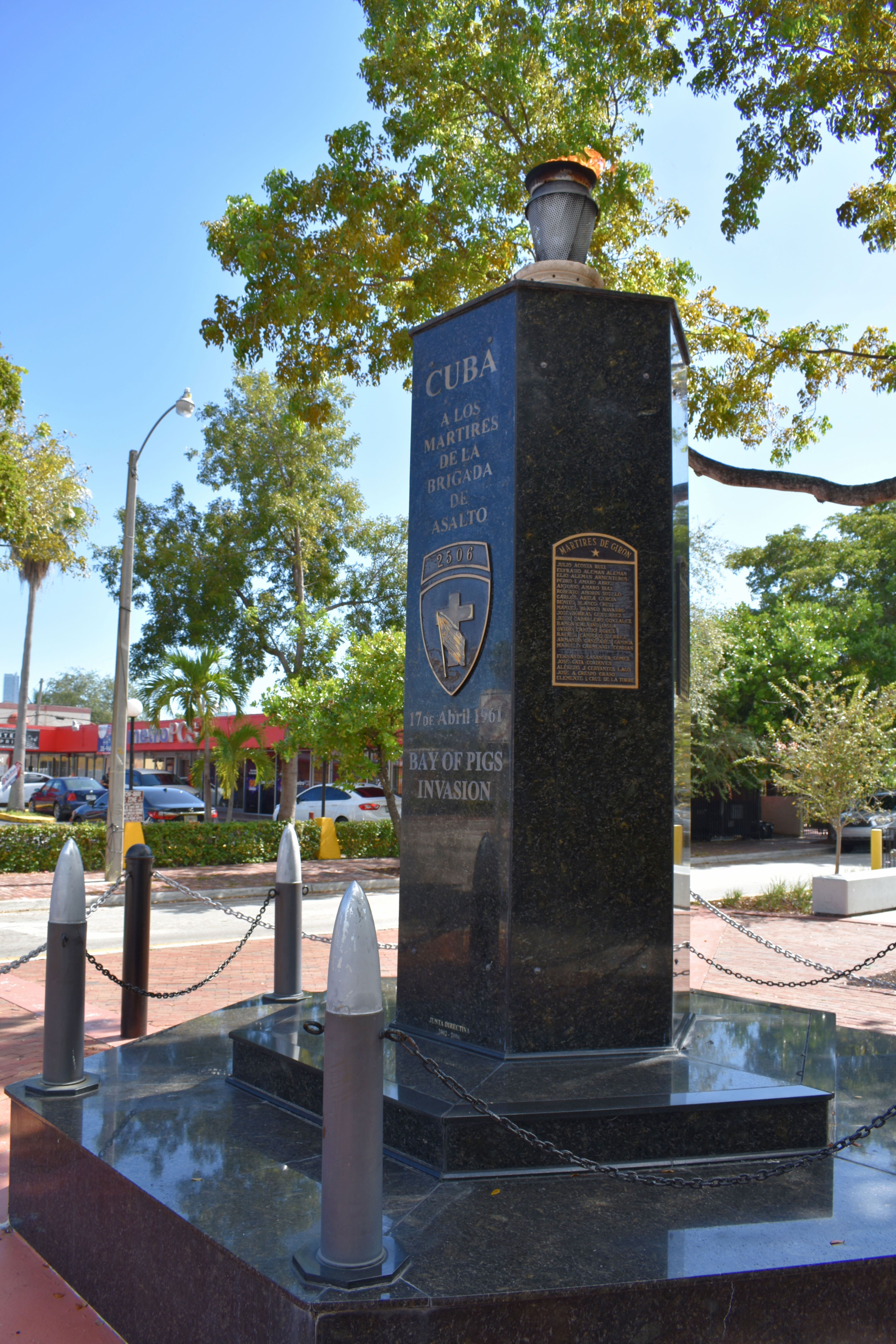 A monument in the Little Havana neighborhood of Miami to the martyrs who died at Playa Giron during the failed Bay of Pigs Invasion of Cuba.